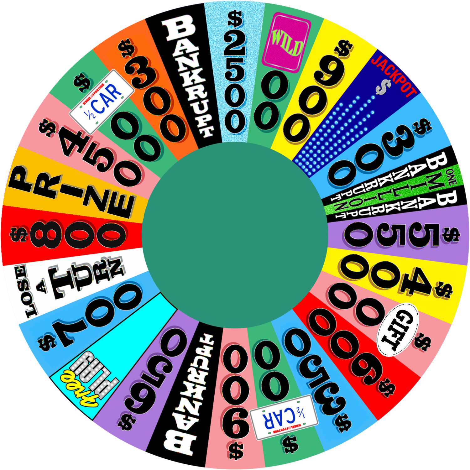 The round 1 layout used in Season 30 of "Wheel of Fortune." Prize wedge created by Germanname1990 and WofFan08.